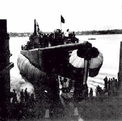 Cite: US Navy, COMSUBPAC Public Affairs URL: Description: USS Bullhead (SS 332)